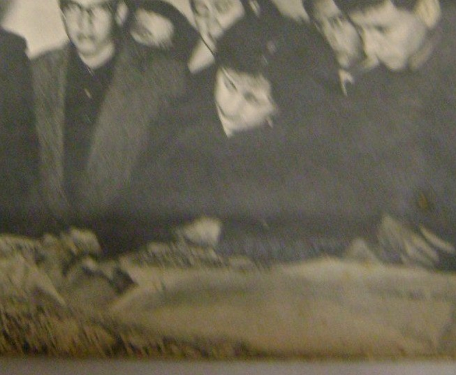 Santiago Luján Saigós (velatorio)